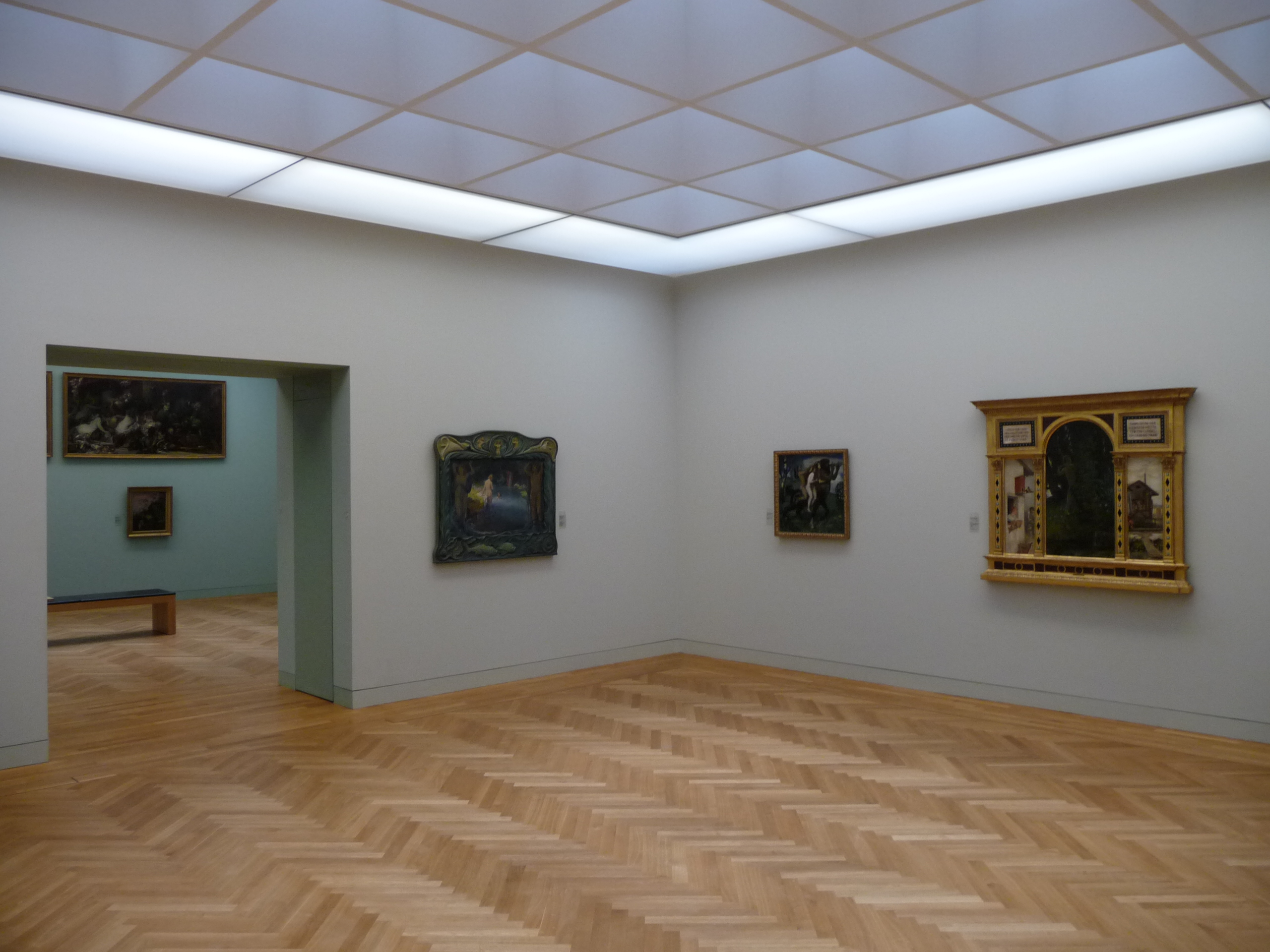 Museum Georg Schäfer, Schweinfurt, interior